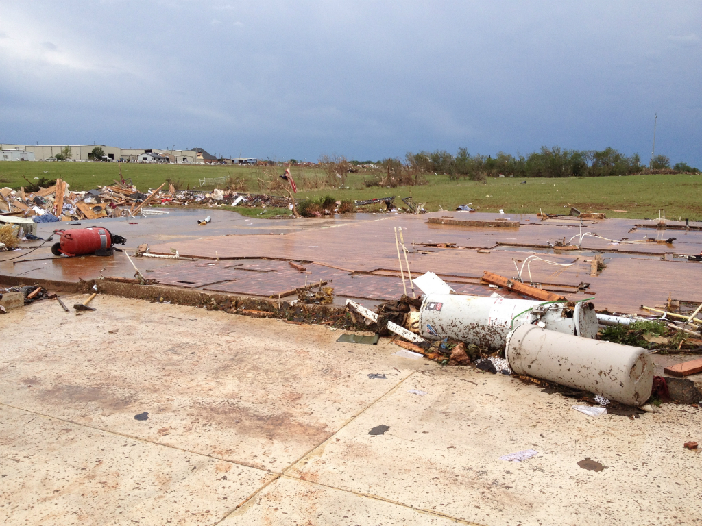 EF5 damage to a well-anchored house in Moore, OK. Slab foundation is swept completely clean.